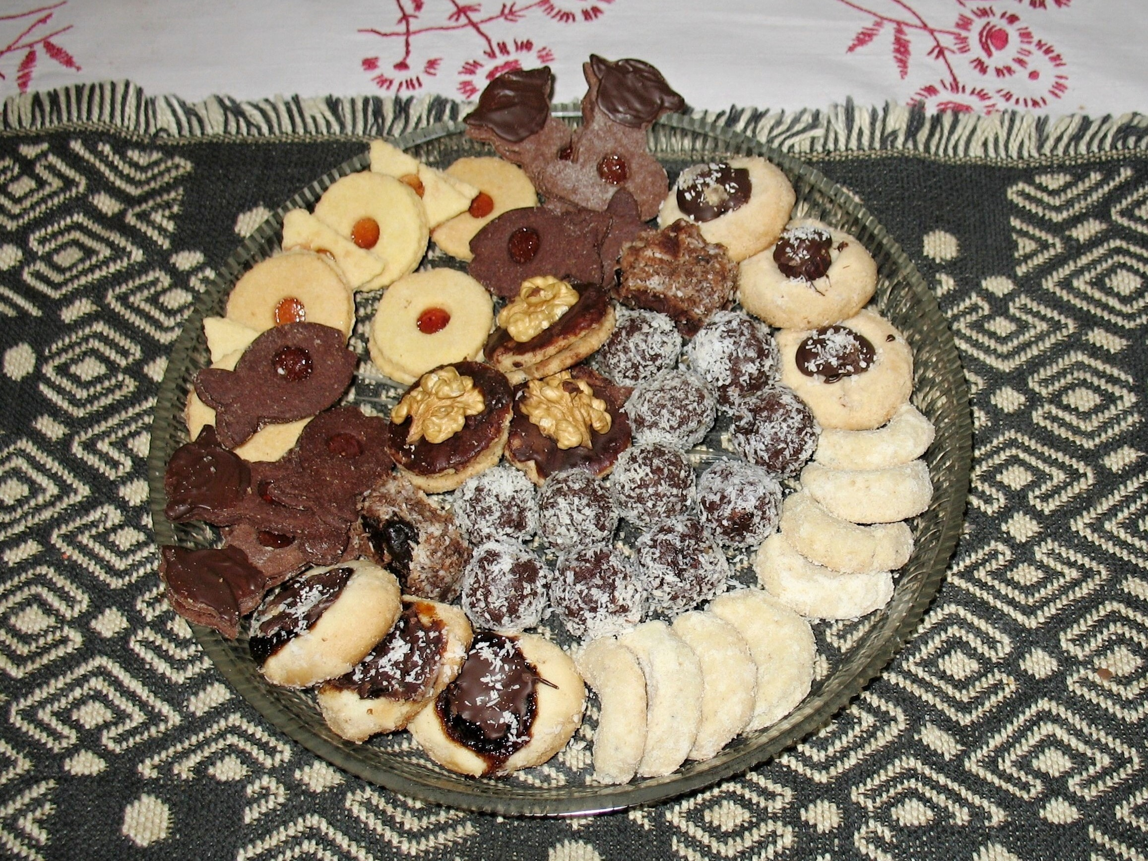 Typical christmas sweets of the Czech Republic